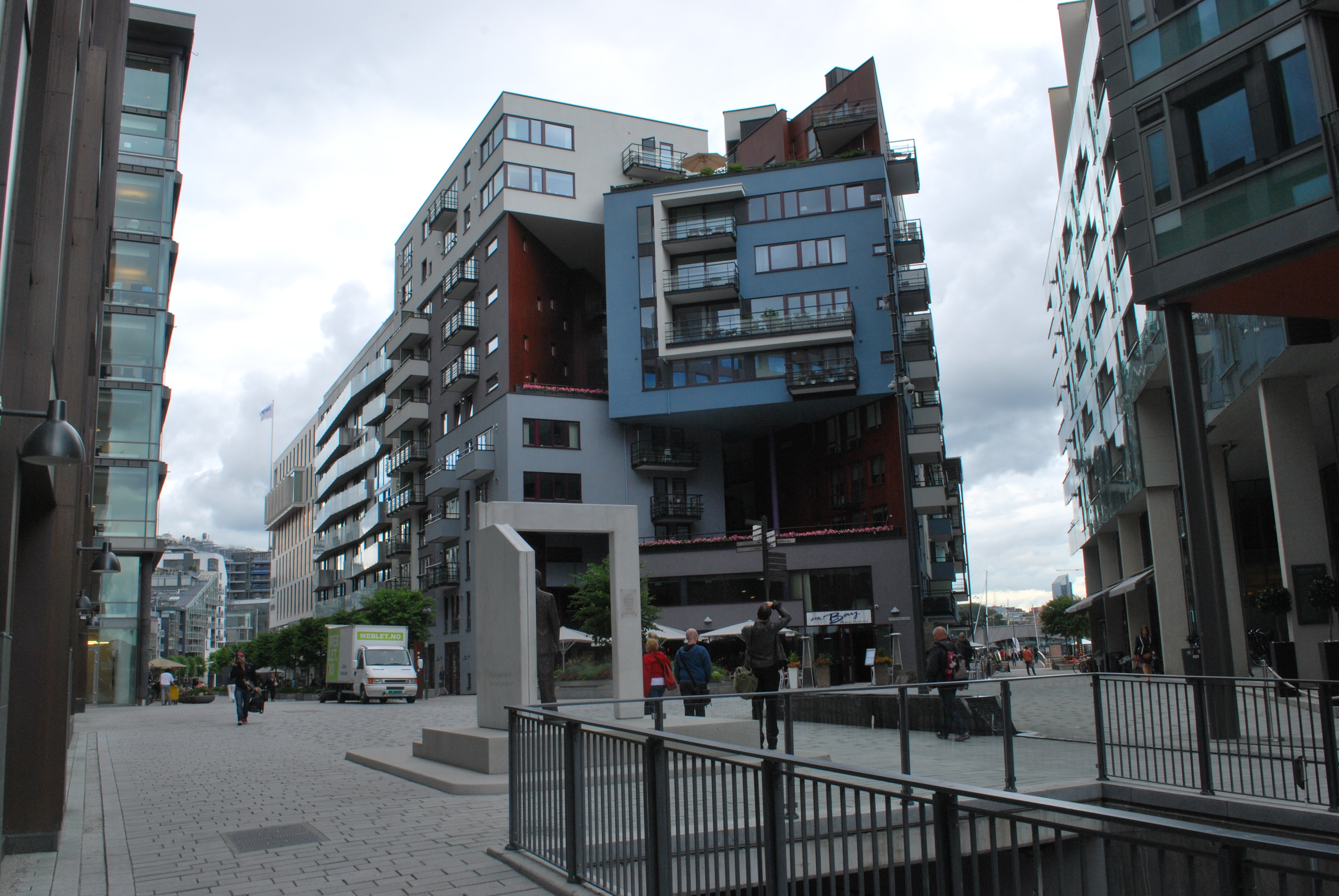 Olav Selvaags plass (square), Tjuvholmen neighborhood, Tjuvholmen alle North to the left